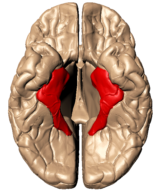 Para-hippocampal gyrus(red). Viewd from bottom. Polygon data are from BodyParts3D maintained by Database Center for Life Science(DBCLS).